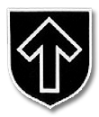 Symbol of the 32. SS-Freiwilligen-Grenadier-Division „30. Januar”